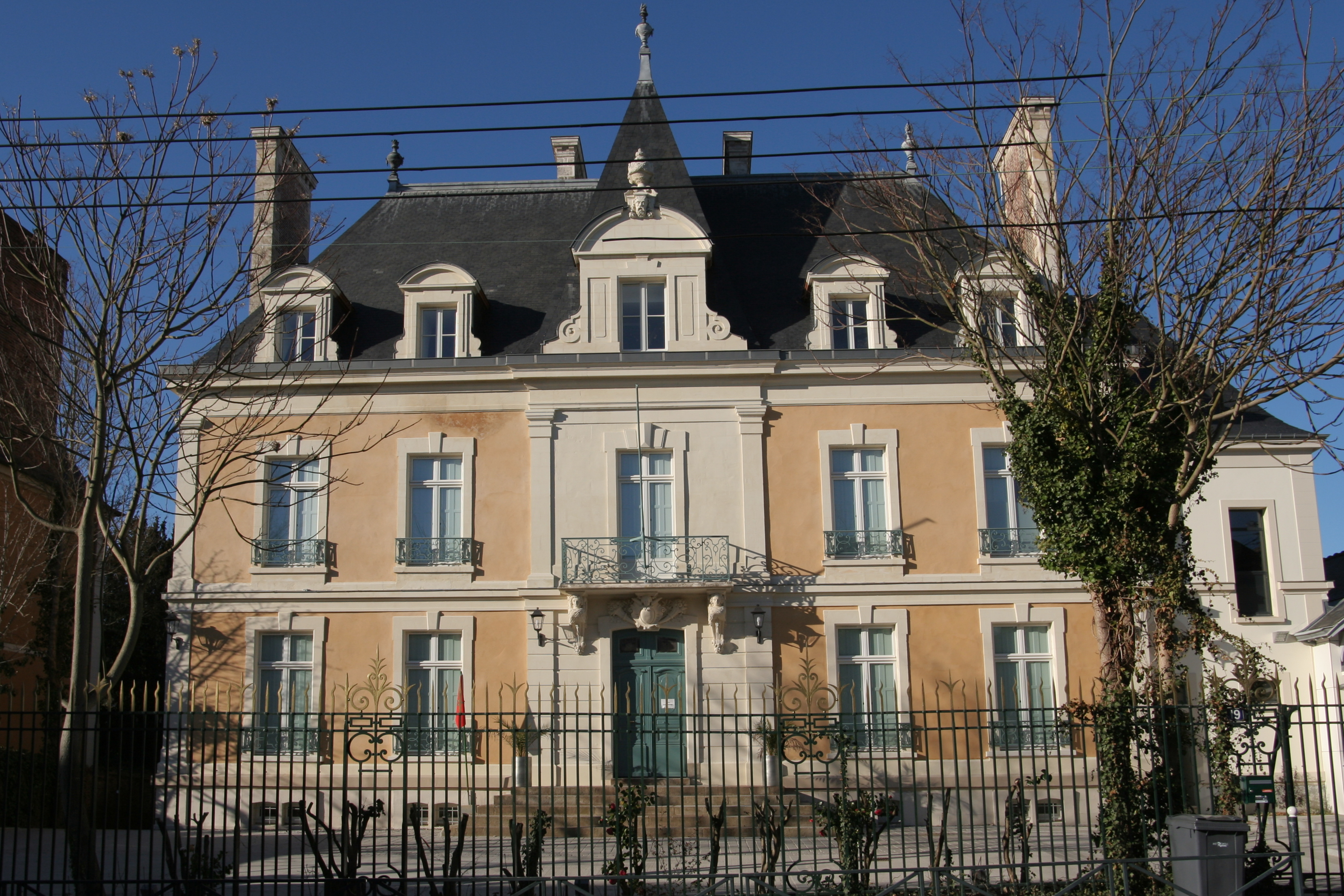 Moroccan general consulate in Rennes.